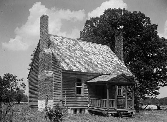 Cascine, State Route 1702, Louisburg vicinity, (Franklin County, North Carolina)